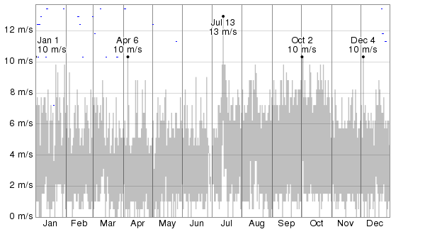 The daily low and high wind speed (light gray area) and the maximum daily wind gust speed (tiny blue dashes).